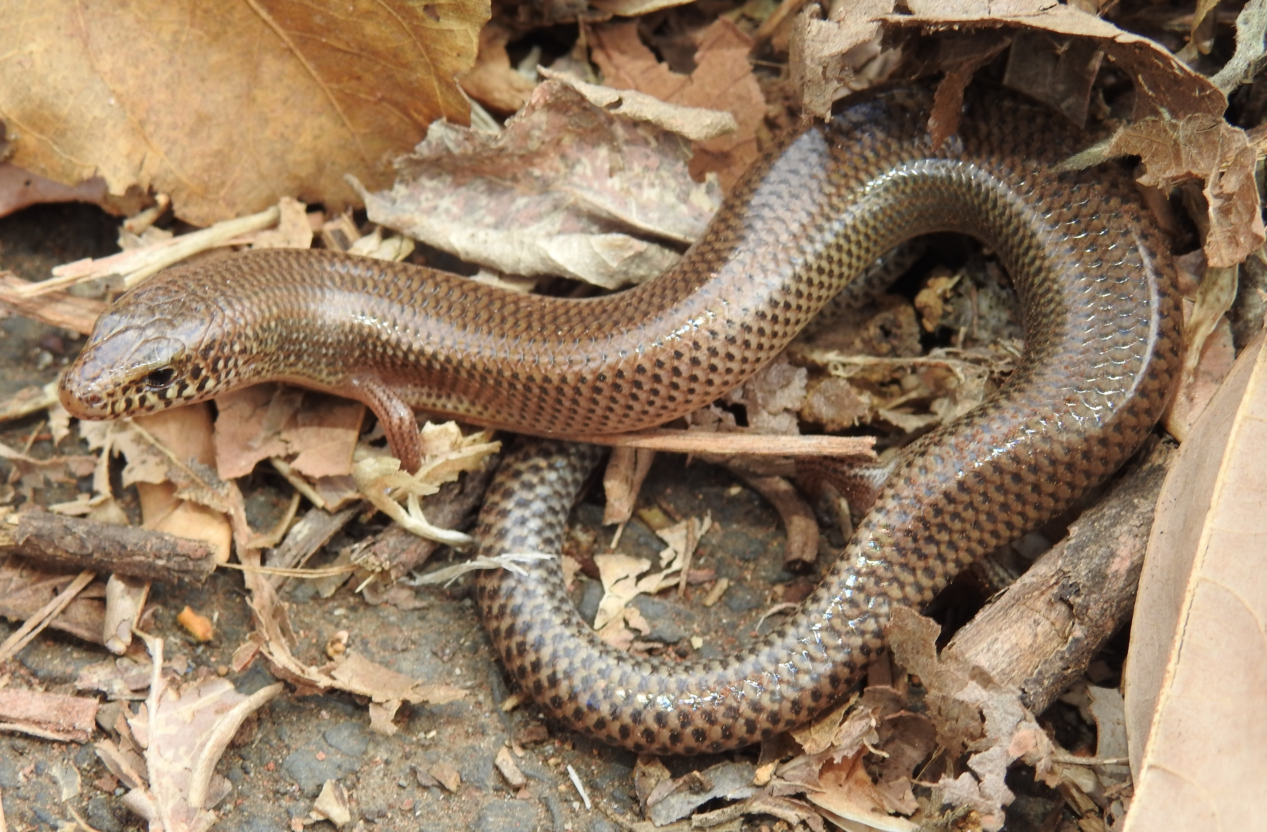 Common Snake Skink Lygosoma punctata. Clicked by Dr. Raju Kasambe in BNHS Conservation Education Centre, Goregaon, Mumbai. Sanjay Gandhi National Park.